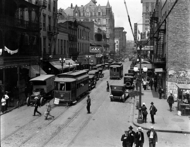 St. Charles Avenue, New Orleans Central Business District, 1920. View is looking downriver from Poydras Street. Large Neo-Gothic building seen at left is the old Masonic Building formerly at St Chares & Perdido, demolished in 1926. At right can be seen the marquee of the older Orpheum (built 1902; aka 3rd St. Charles Theater). Streetcar and motor traffic.